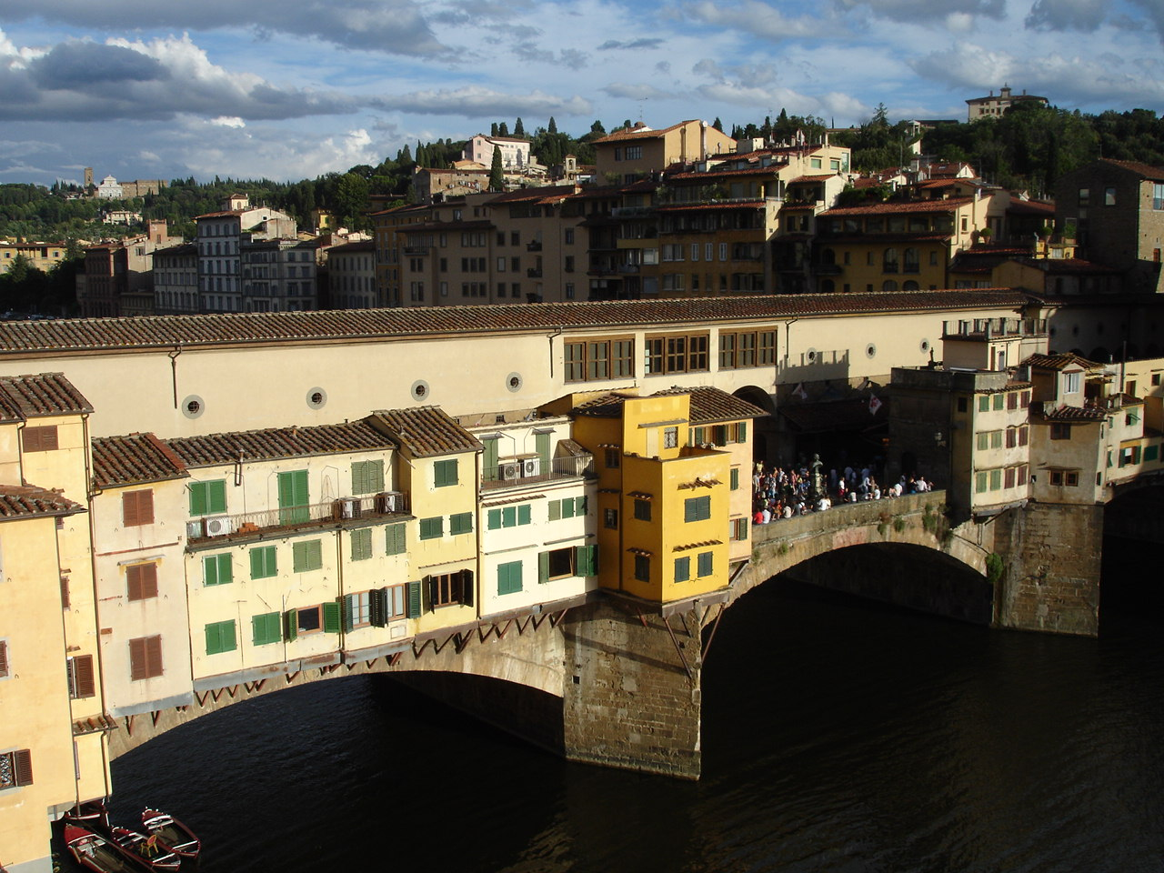 View of the Ponte Vecchio from a hotel balcony